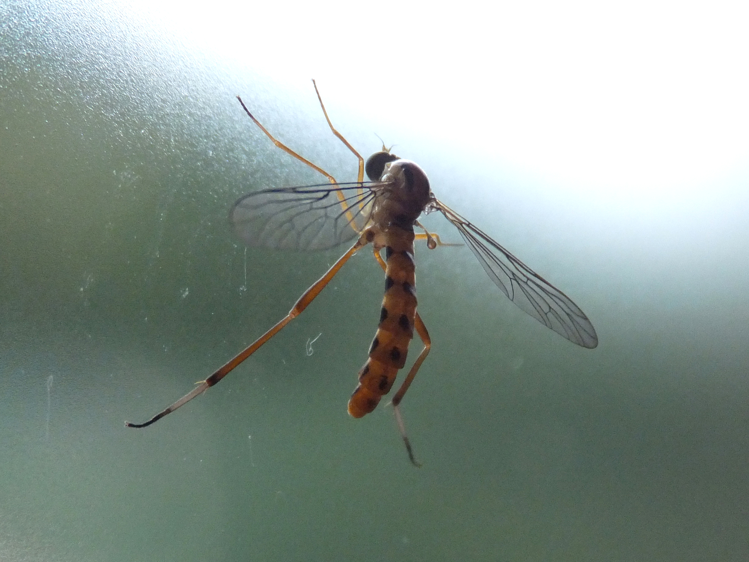 A wormlion (Vermileo vermileo) photographed in Piazzo (Segonzano, Italy) - Adult